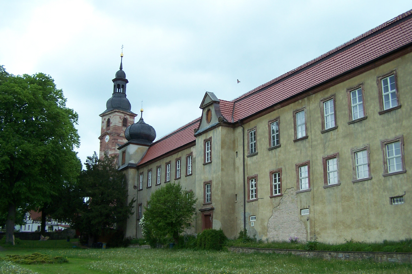 The Propstei Zella - southern front.